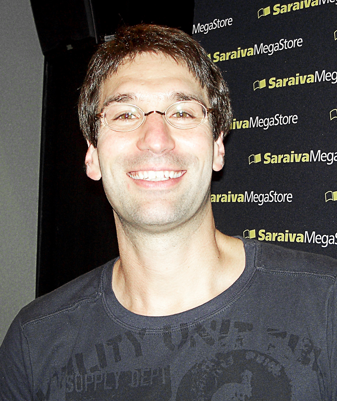 Arnaldo Ribeiro, Brazilian journalist who works for ESPN Brasil and Placar magazine.